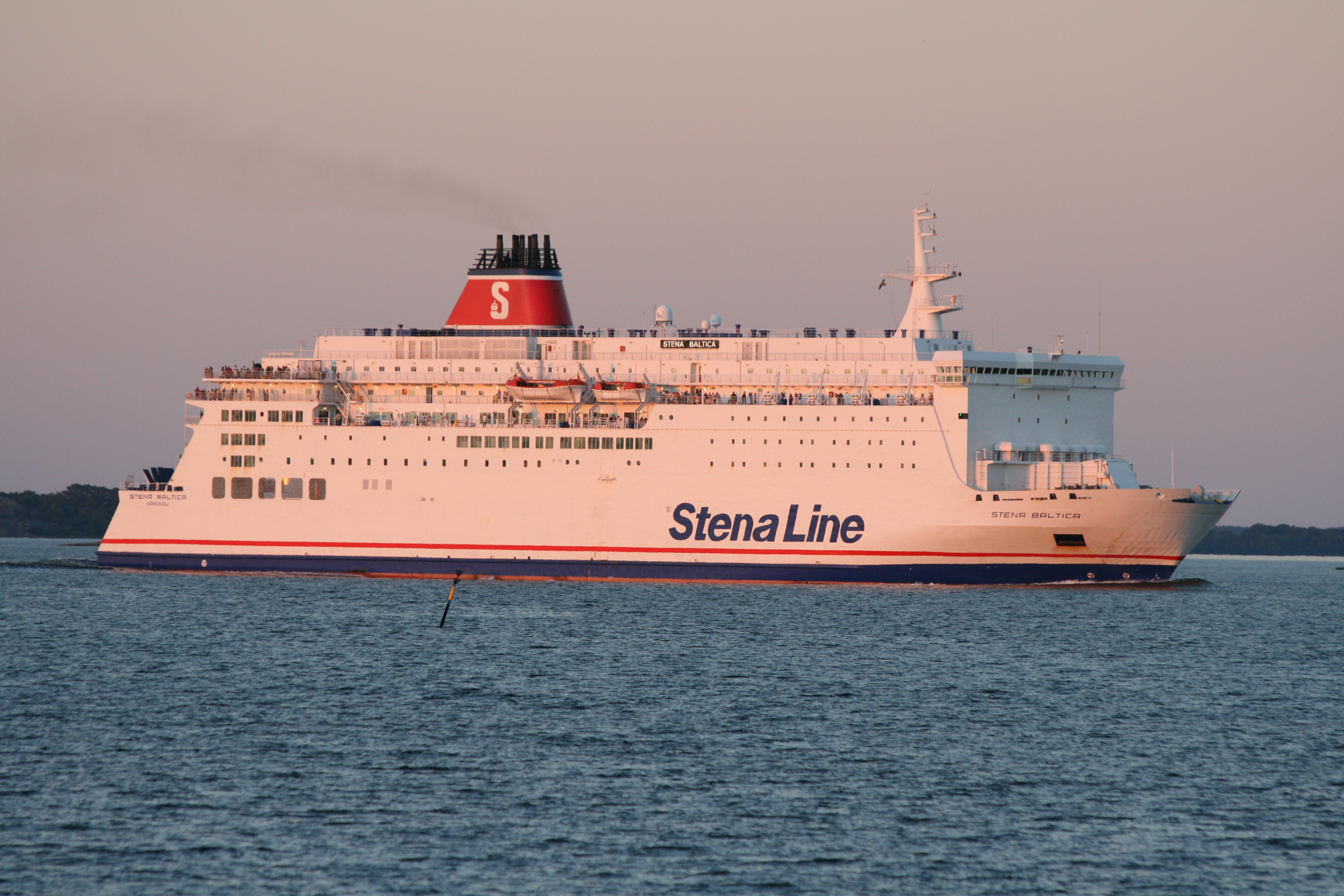 M/S Stena Baltica minutes after leaving the port of Karlskrona, Sweden, heading for Gdynia, Poland.